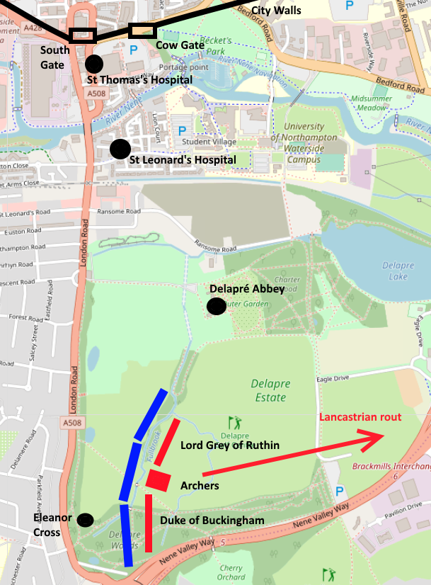 Map showing the dispositions of the respective armies at the beginning of the Battle of Northampton, 10 July 1460. Map of Northampton is taken from OpenstreetMap ([1]); armies, walls, etc, taken from Kinross, J., Walking and Exploring the Battlefields of Britain (1988), p.80 and Ingram, M., The Battle of Northampton (2015), p.92.